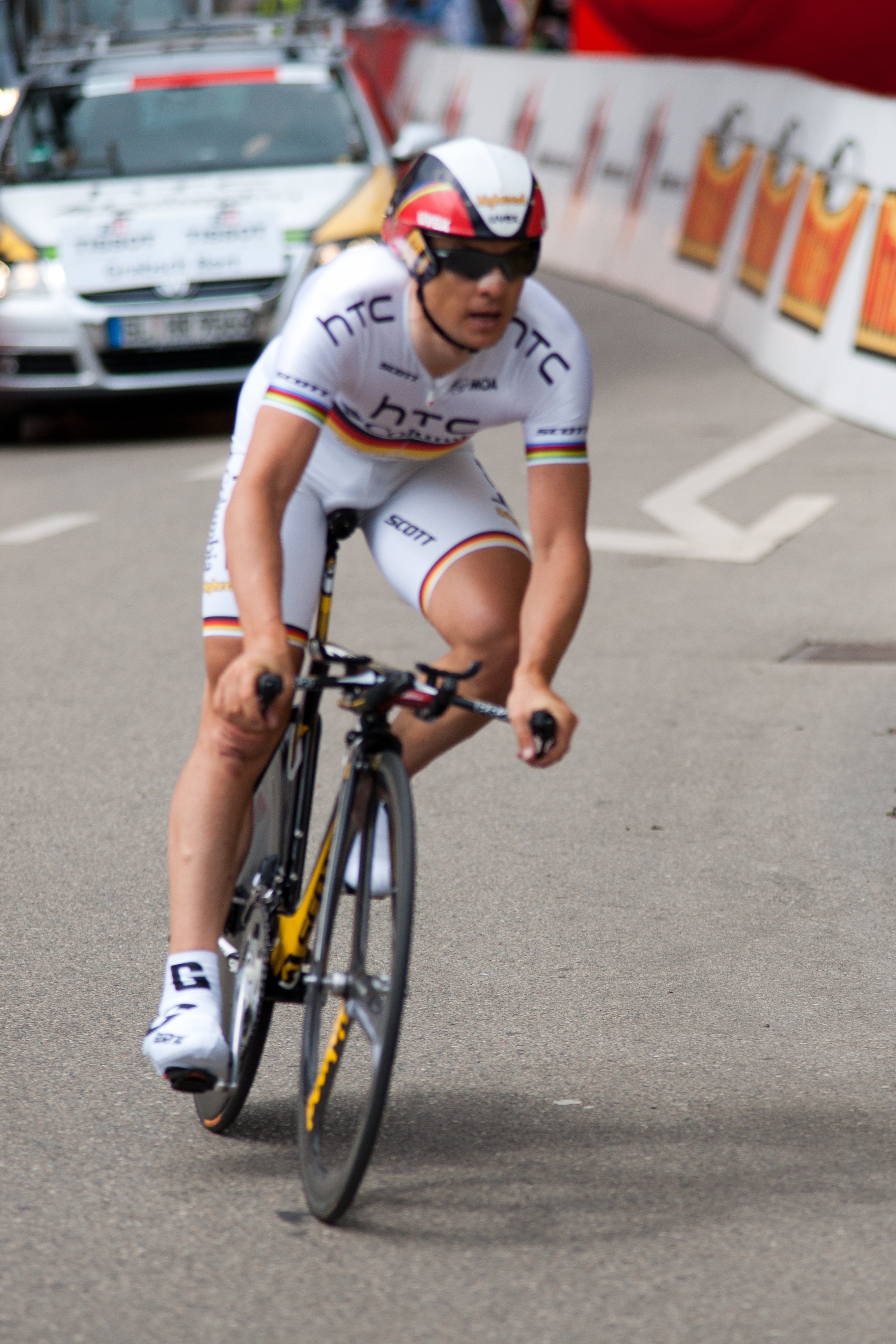 Bert Grabsch during the 3rd stage of the Tour de Romandie 2010.